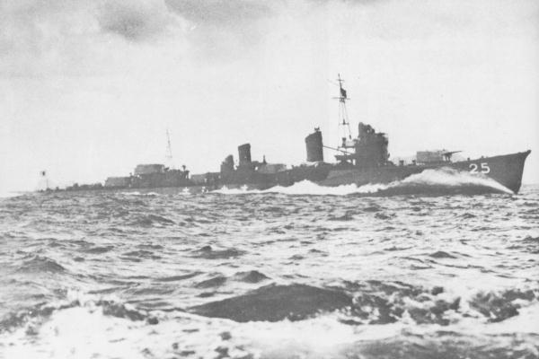 Ohshio, Asashio class destroyer of the Imperial Japanese Navy, maybe on trial run.